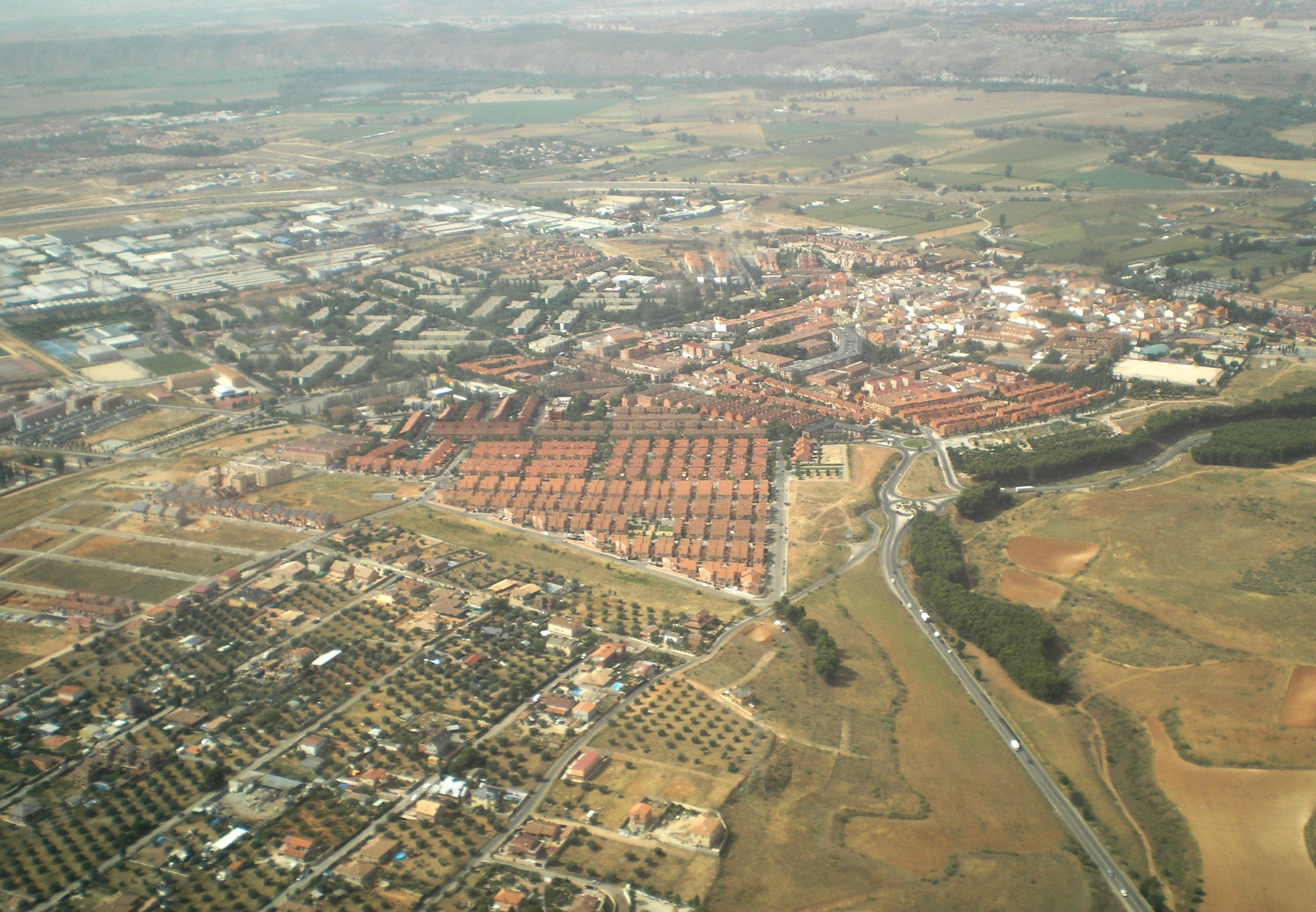 Mejorada del Campo, in the Community of Madrid, Spain, seen from a plane.